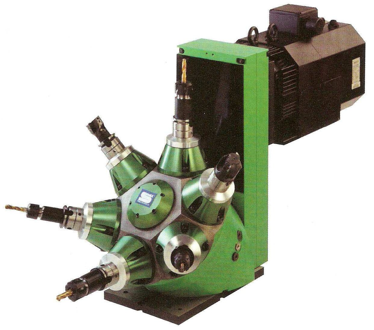 Somex ETR36 revolver (tool carrier) head for a numerical control machine tool.